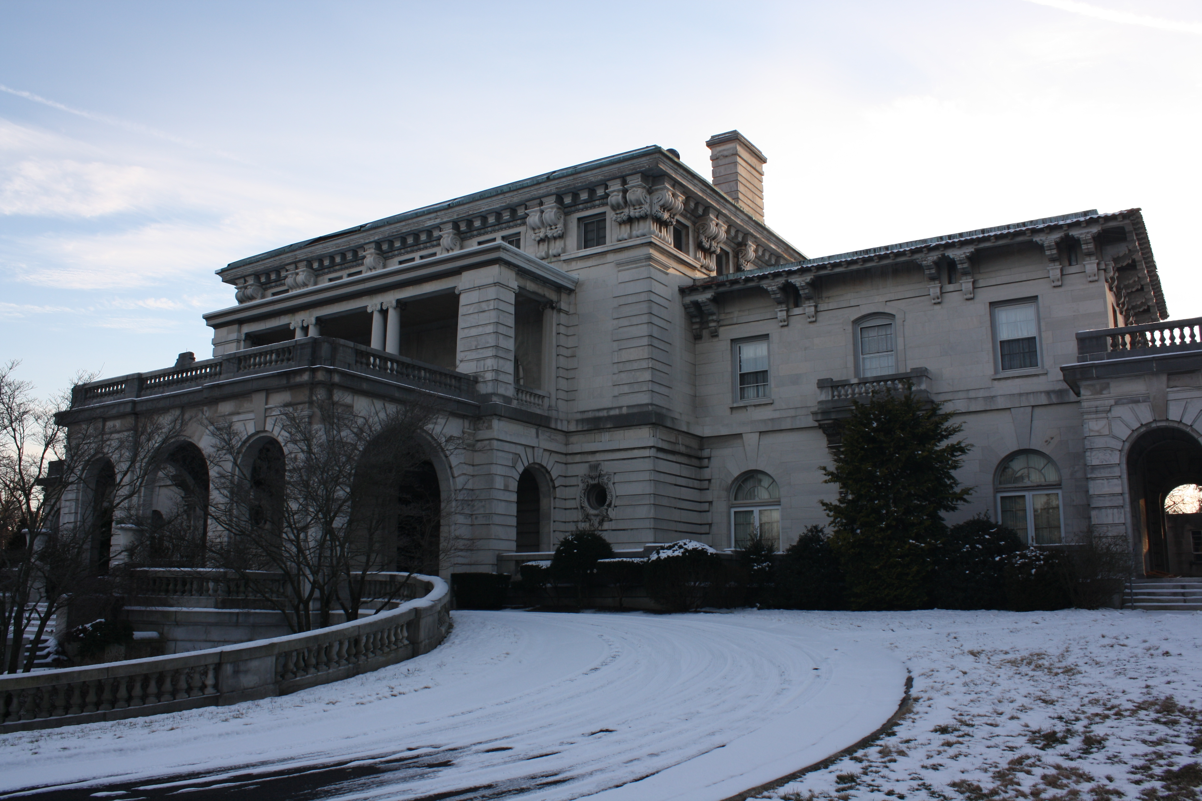 Elstowe Manor, main building of Elkins Estate. Elstowe Manor was built in 1898 at the location where "Needles", the former family summer home of William L. Elkins had stood.